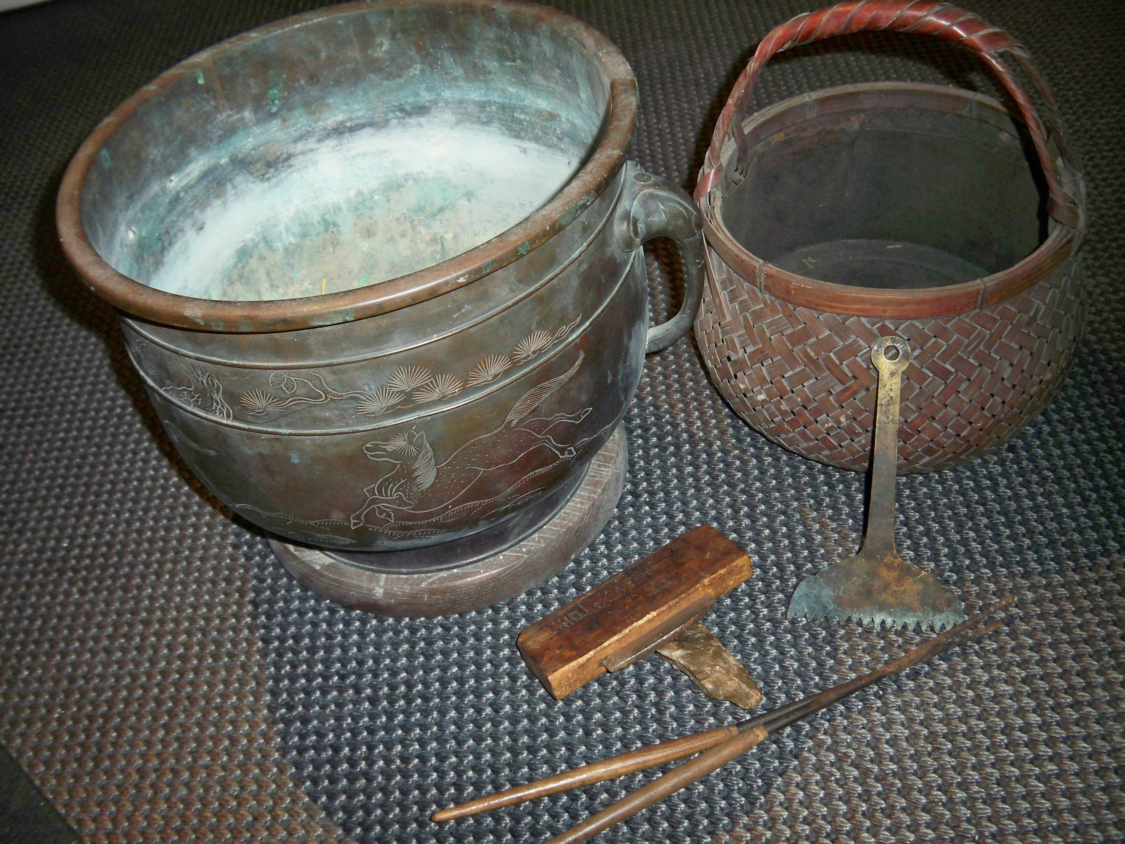 Antique Japanese bronze hibachi room warmer with wicker coal basket, coal rake, coal tongs, fire starter and spark stone.